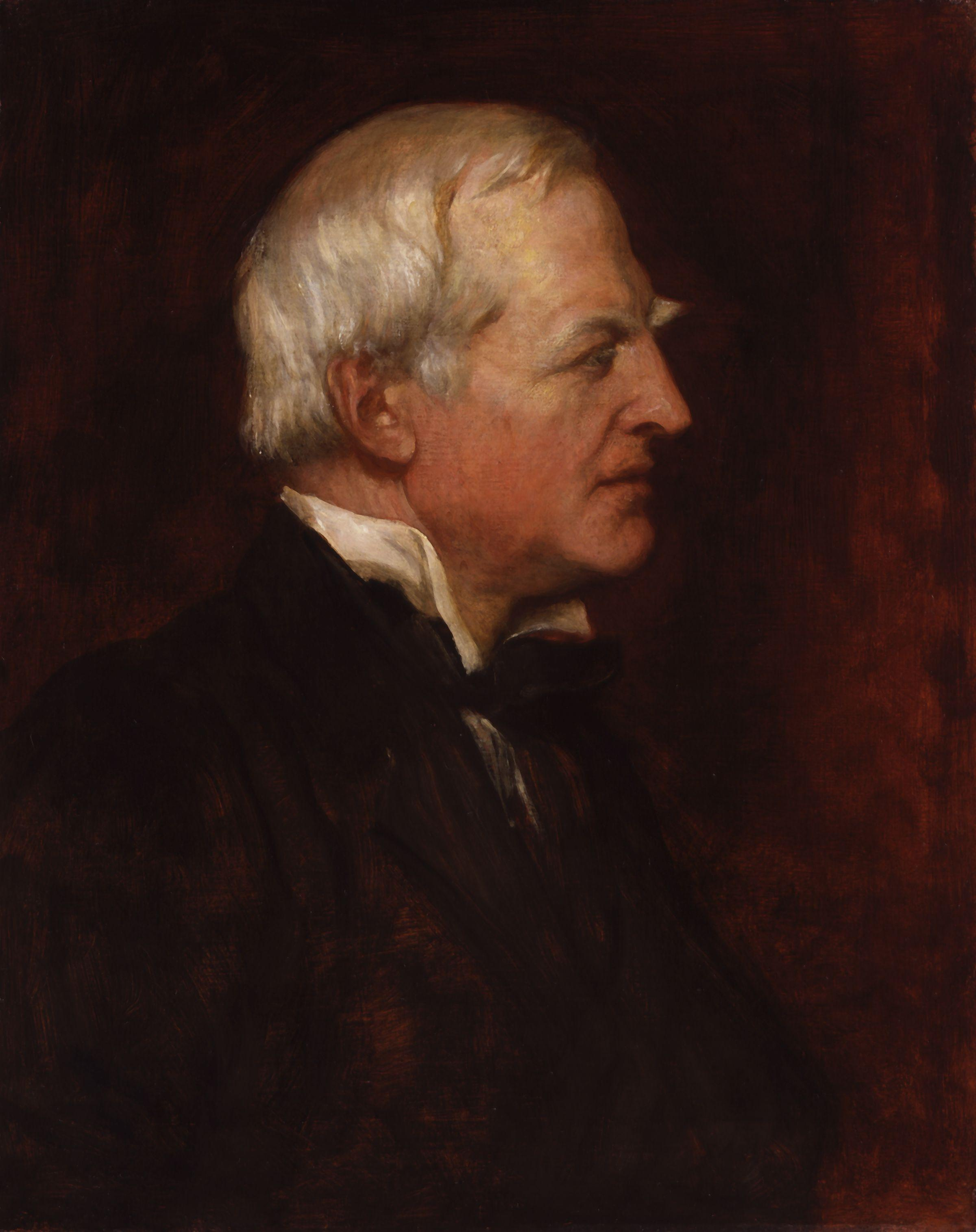 Robert Lowe, 1st Viscount Sherbrooke